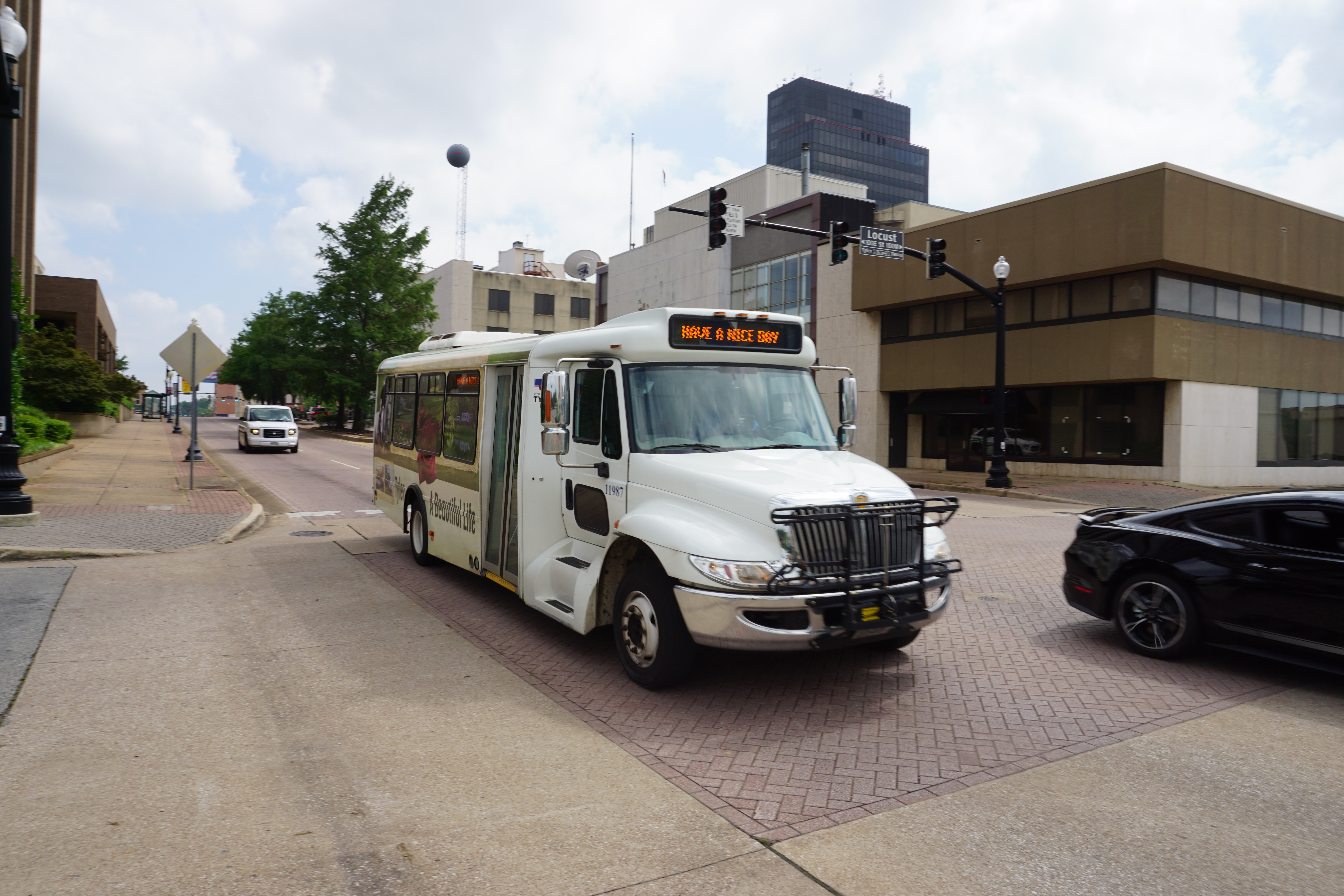 A Tyler Transit bus in Tyler, Texas (United States).